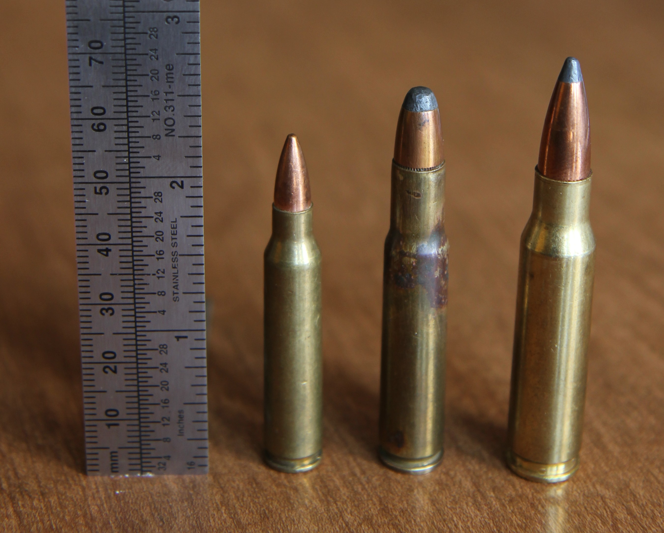 A .30 Remington cartridge next to a metric/imperial ruler with .223 Remington and .308 Winchester cartridges for comparison.